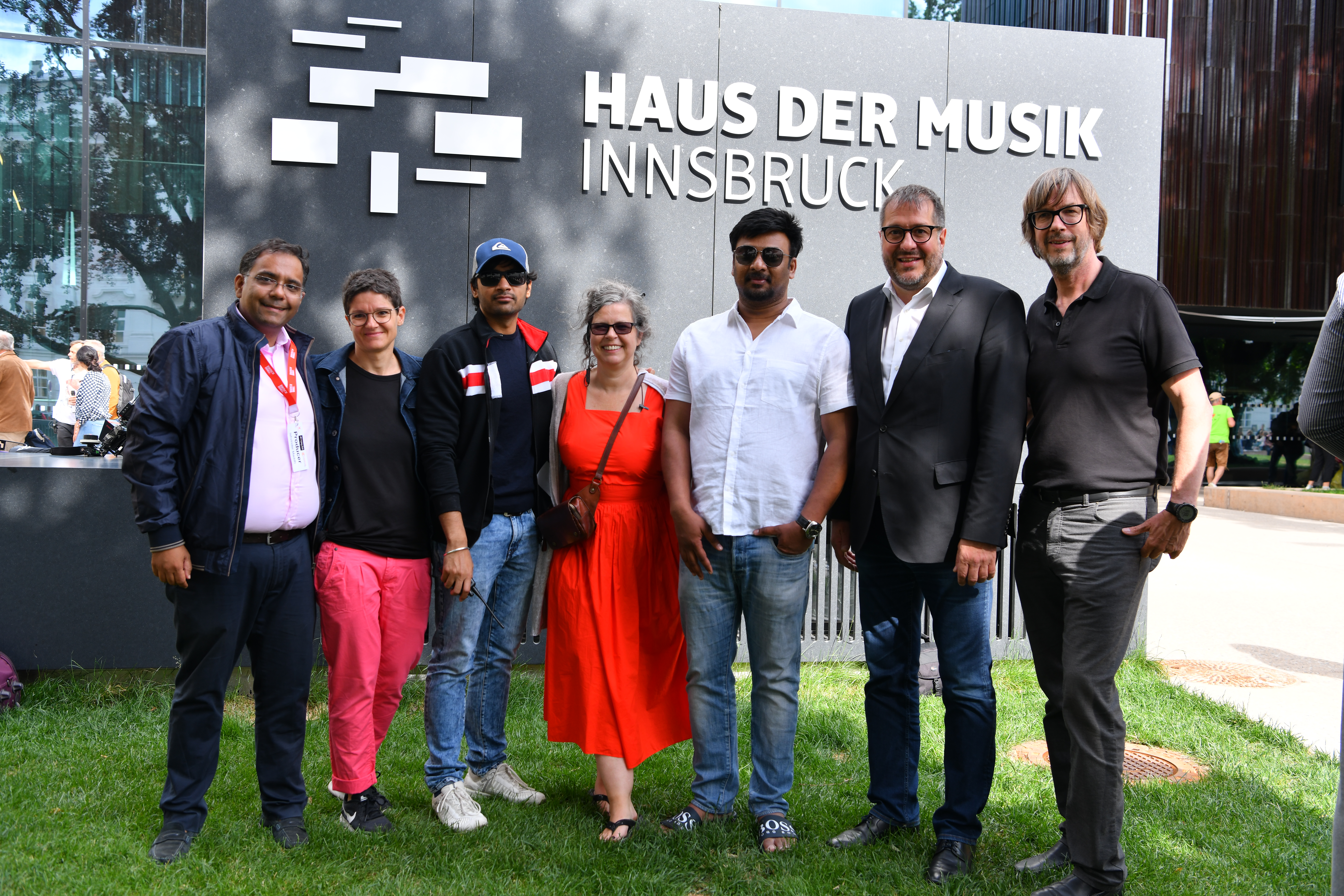 Group photo clicked on 22nd June 2019 at Haus der Musik Innsbruck of Ishvinder Maddh (Robinville), Esther Wilhelm (Innsbruck Tourismus), Sujeeth (Director), Dr. Ursula Keplinger-Forcher (Creative Creatures) , Pramod Uppalapati (Film Producer), Vice Mayor Franz Xaver Gruber (City Innsbruck) und Johannes Köck (Cine Tirol)